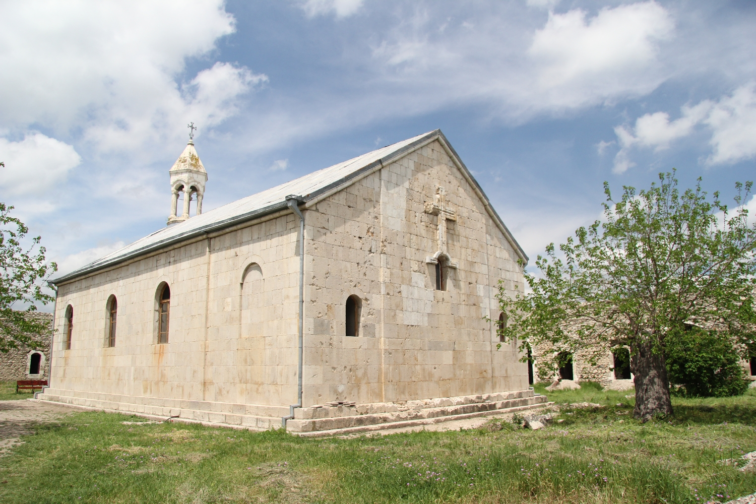 Amaras